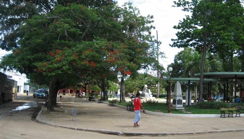 Melena del Sur center park